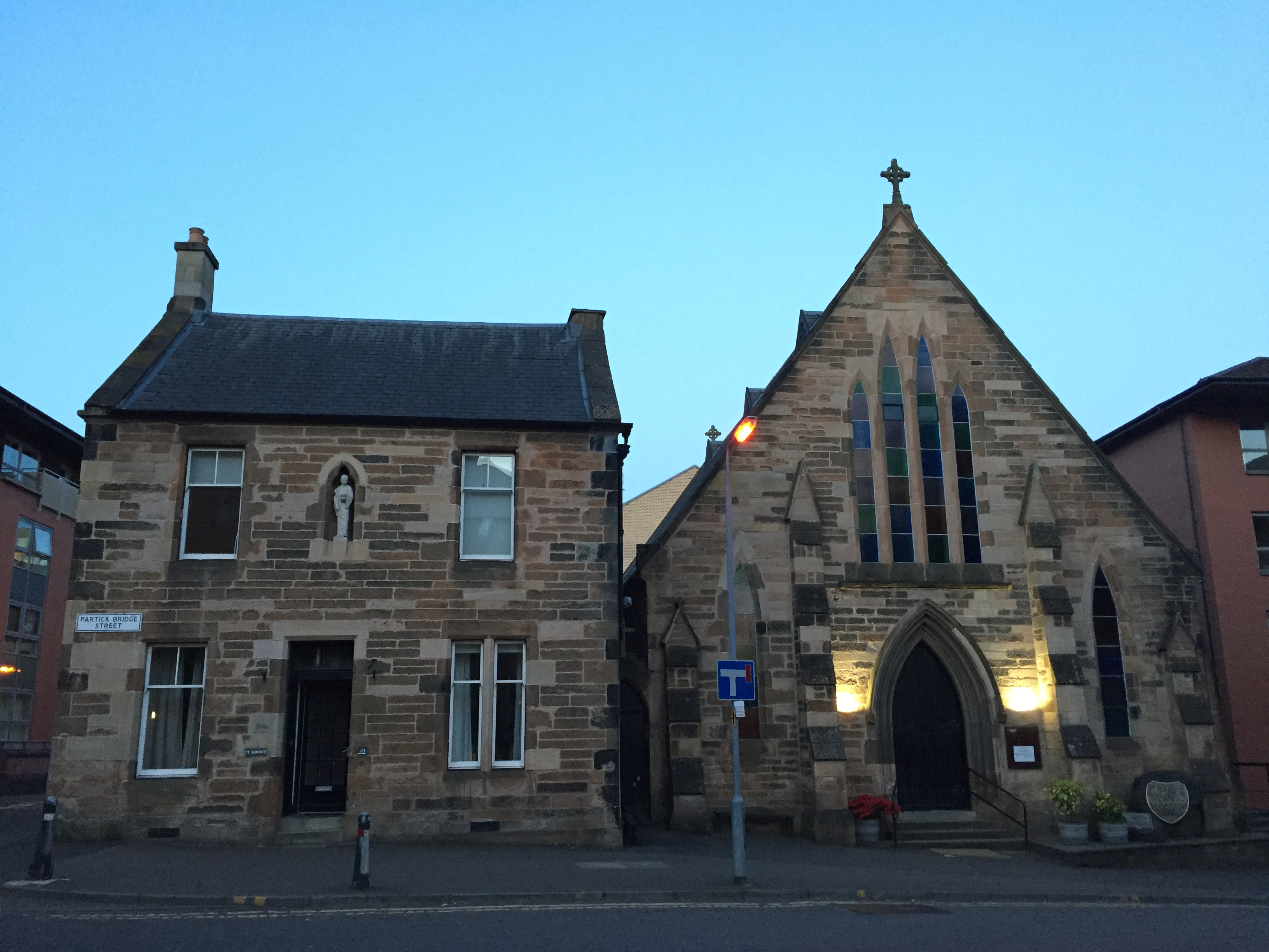 Partick Bridge Street, St Simon's Rc Church, Presbytery